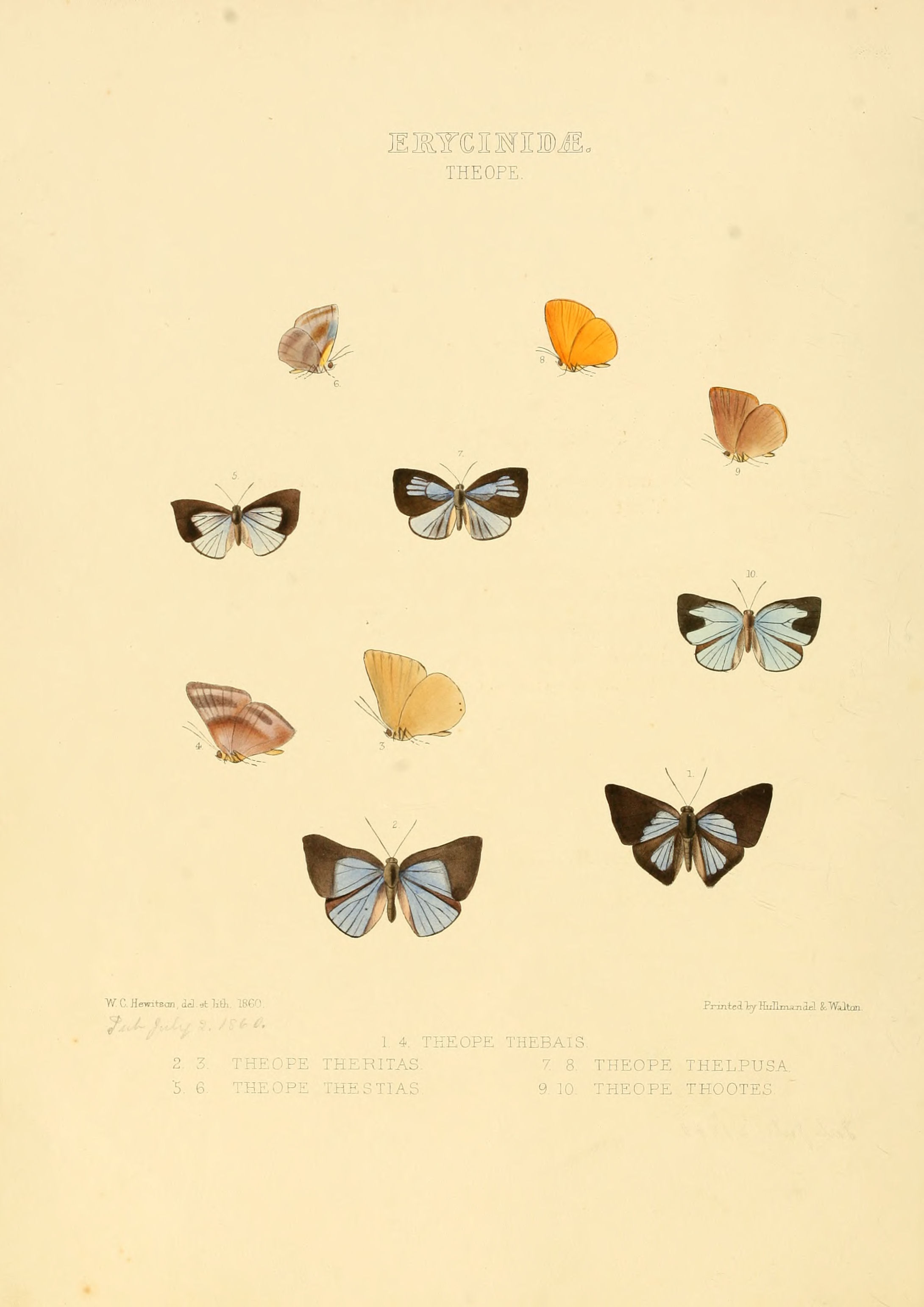 Plate: Theope Theope thebais. Figs. 1, 4. Accepted as Theope archimedes (Fabricius, 1793). Theope theritas. Figs. 2, 3. Accepted as Theope theritas Hewitson, 1860. Theope thestias. Figs. 5, 6. Accepted as Theope thestias Hewitson, 1860. Theope thelpusa. Figs. 7, 8. Accepted as Theope pedias Herrich-Schäffer, 1853. Theope thootes. Figs. 9, 10. Accepted as Theope thootes Hewitson, 1860.